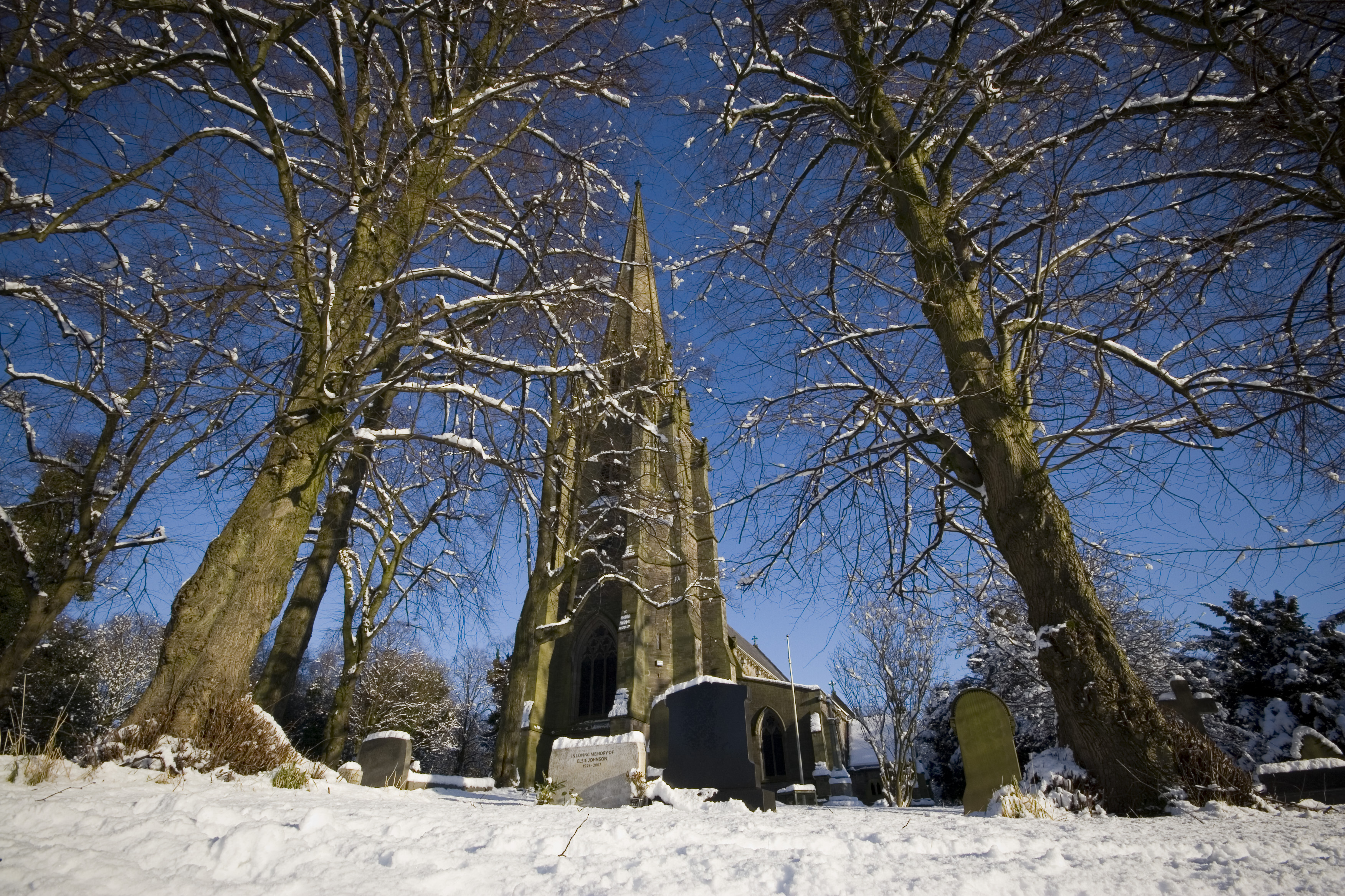 St Mark's parish church, Worsley, Greater Manchester, seen from the west in snow